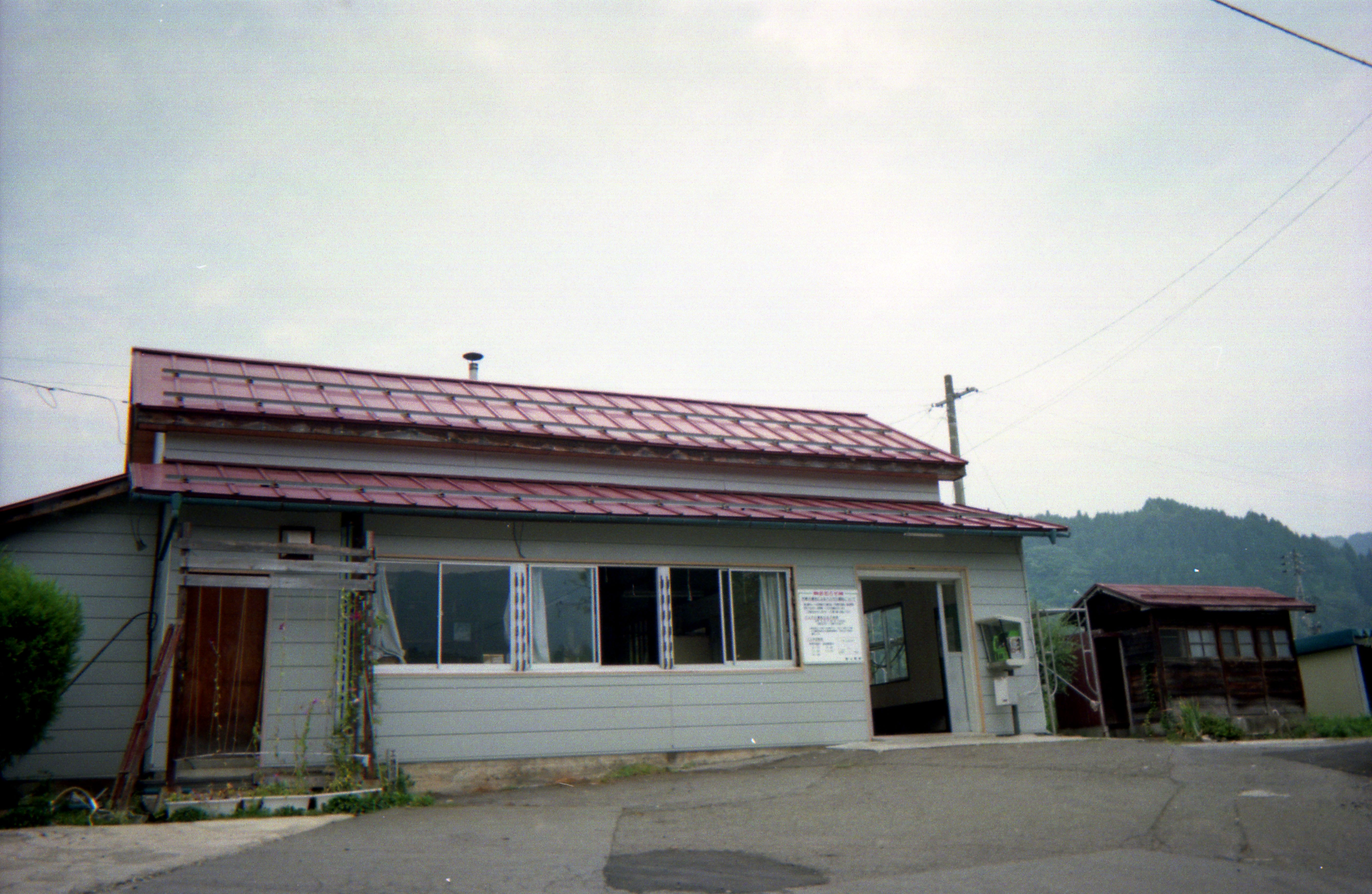 Old building of Kamisakai Station on JR East Iiyama Line